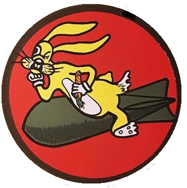 495th Bombardment Squadron - Emblem